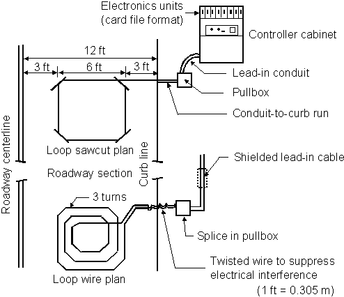 Image depicts an inductive-loop detector installation, which contains a 3-turn 6- x 6-ft (1.8- x 1.8-m) square loop and connecting wire and cable. The loop is centered in a 12-ft (3.7 m) roadway, 3 ft (0.9 m) from either side.